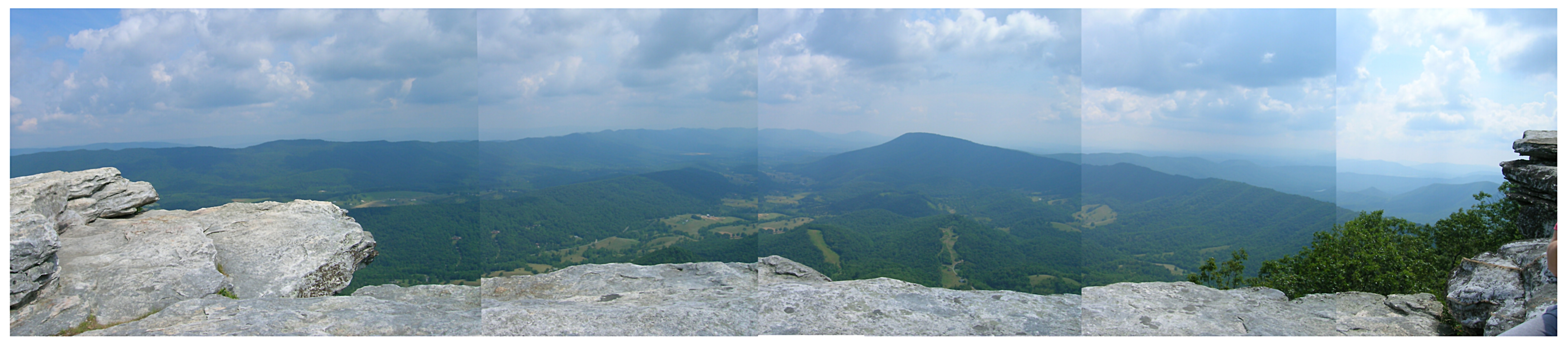 Mcafee Knob Panorama. McAfee Knob, Roanoke County, Virginia 24070.